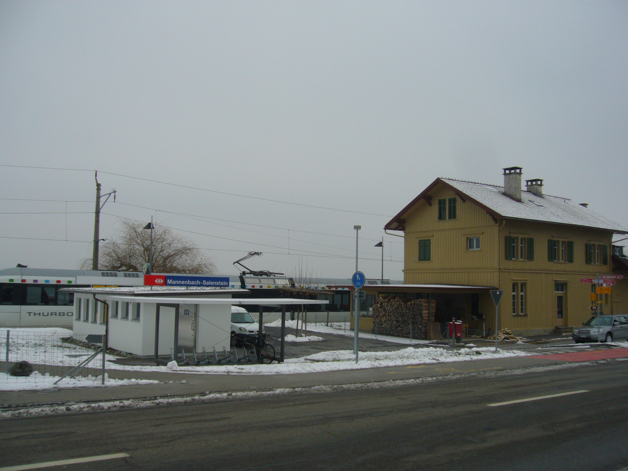 rail station Mannenbach, Switzerland